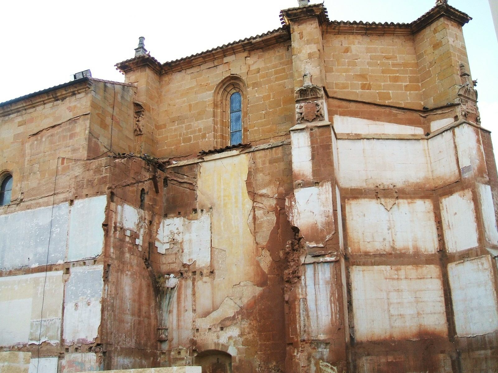 Ábside descubierto de la Iglesia de Santa María la Mayor, Soria, Castilla y León, España